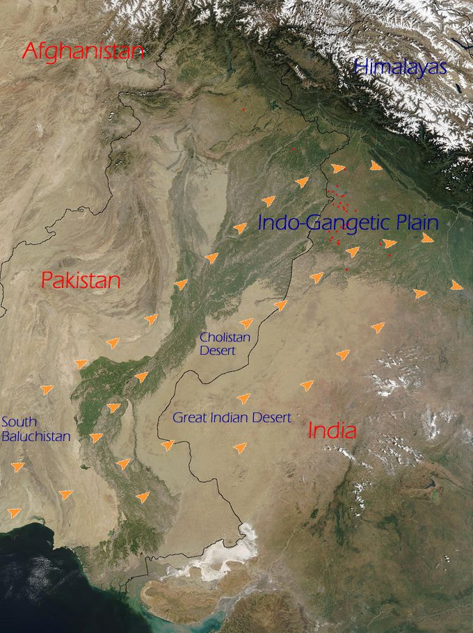 The orange arrows indicate how the Loo originates in the deserts of Thar (Great Indian Desert), Cholistan and Baluchistan and flow eastwards towards the entire western part of the Indo-Gangetic plain.